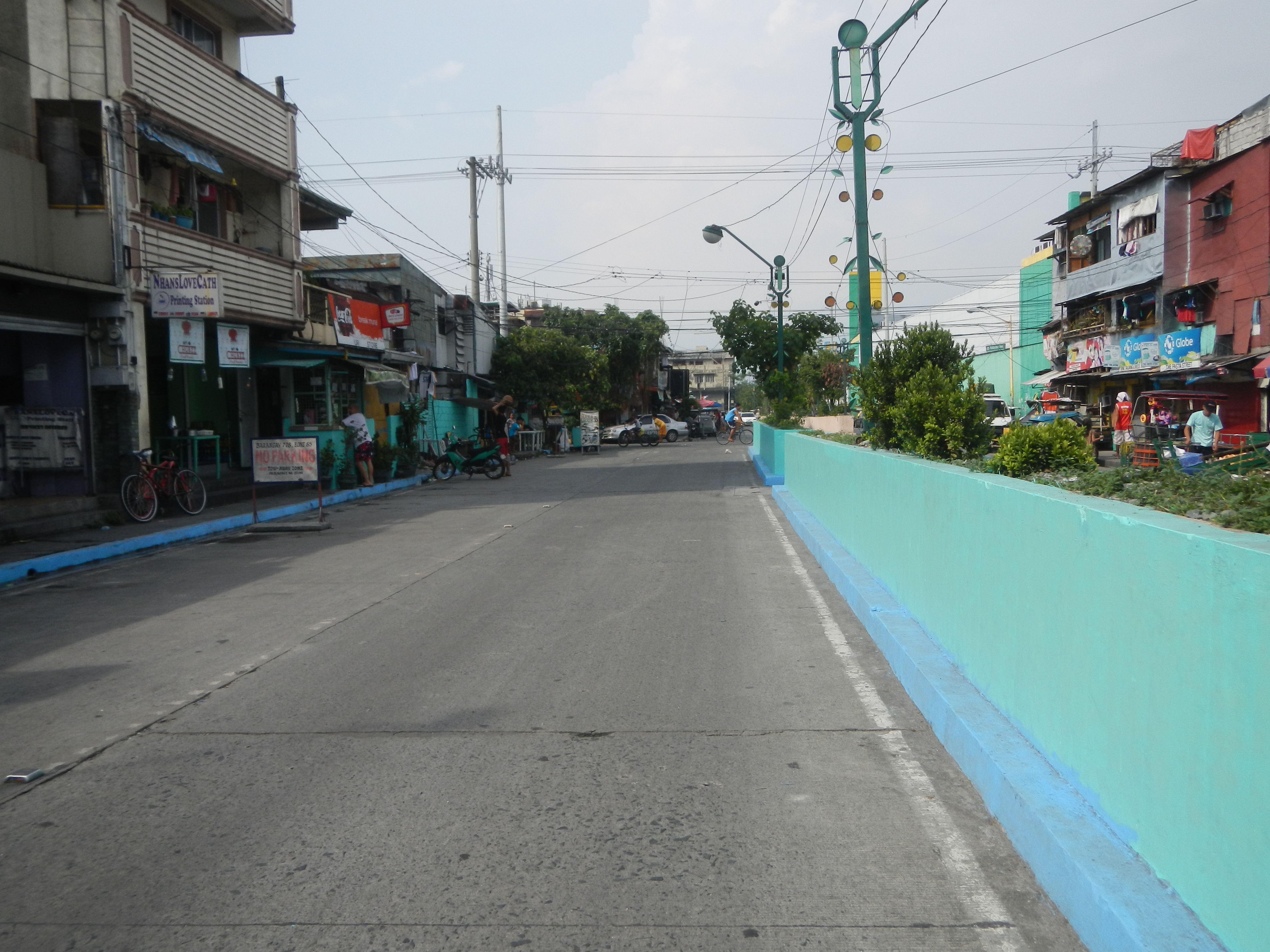 J.P. Rizal Avenue J. P. Rizal Street corner Varona Street in List of barangays of Metro Manila, Legislative districts of Makati, Barangay Tejeros, formerly Matungaw, beside Singkamas, Makati, Barangay La Paz and Barangay San Antonio, Makati City (beside and bounded, upon the Makati City-City of Manila Boundary Welcome Monument-Road sign, Del Pan Street, Tejeron Street, Zobel Roxas Street bounded by R. Del Pan Bridge Sta. 5+000 Load limit 15 metric tons, and beside List of barangays of Metro Manila Legislative districts of Manila Barangays 765, Zone 83, 770, Zone 84, 778, 783, Zone 85, District V, Santa Ana, Manila City of Manila; Benitez Elementary School (Santa Ana) Kalayaan Avenue Zobel Roxas Street Onyx Street Caton Street, Eureka Street, Archimedes Street and Flordeliz Street Barangay La Paz, Makati City Elementary School (Makati City); Note: Judge Florentino Floro, the owner, to repeat, Donor Florentino Floro of all these photos hereby donate gratuitously, freely and unconditionally all these photos to and for Wikimedia Commons, exclusively, for public use of the public domain, and again without any condition whatsoever).